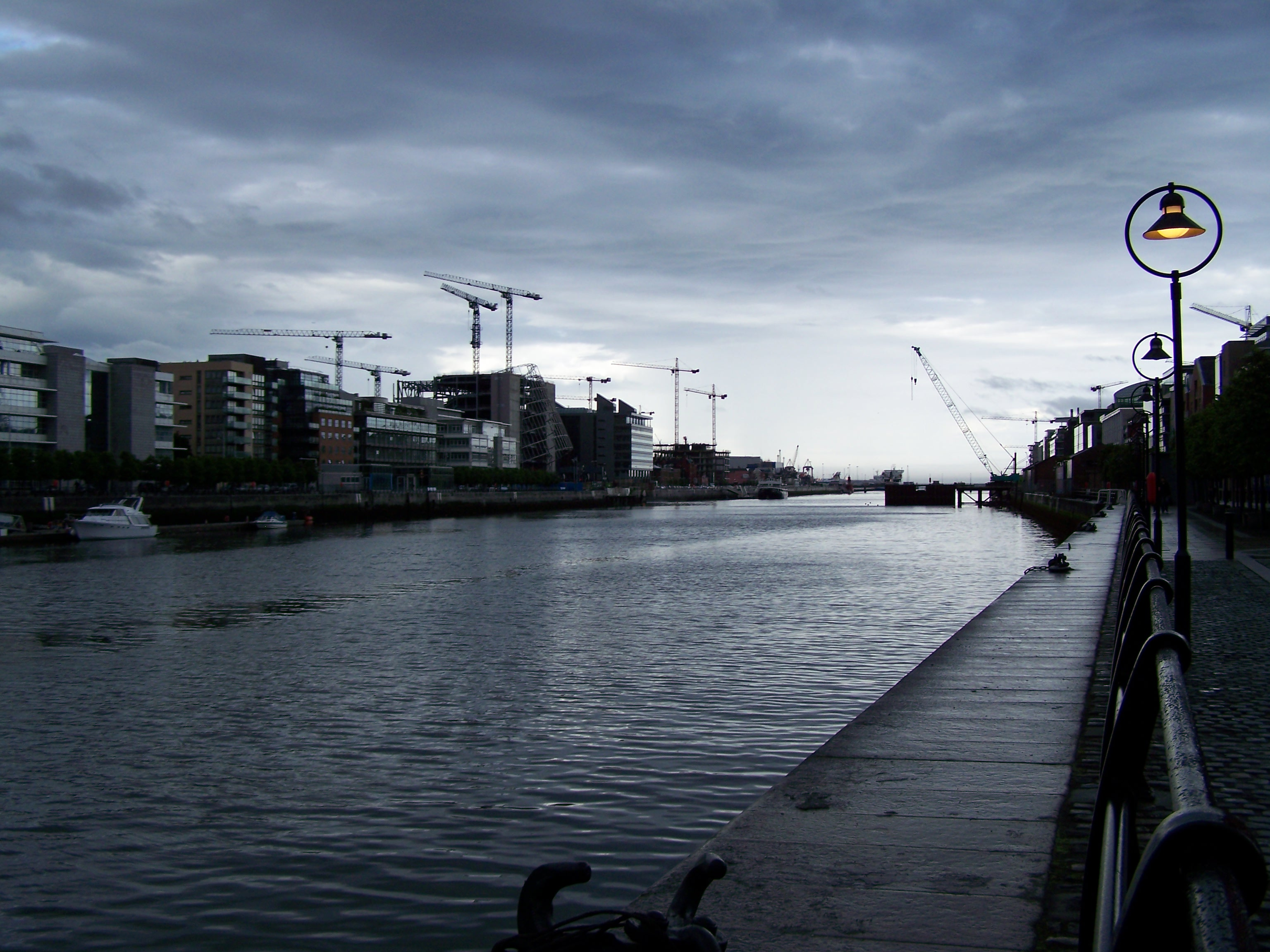 Dublin docklands